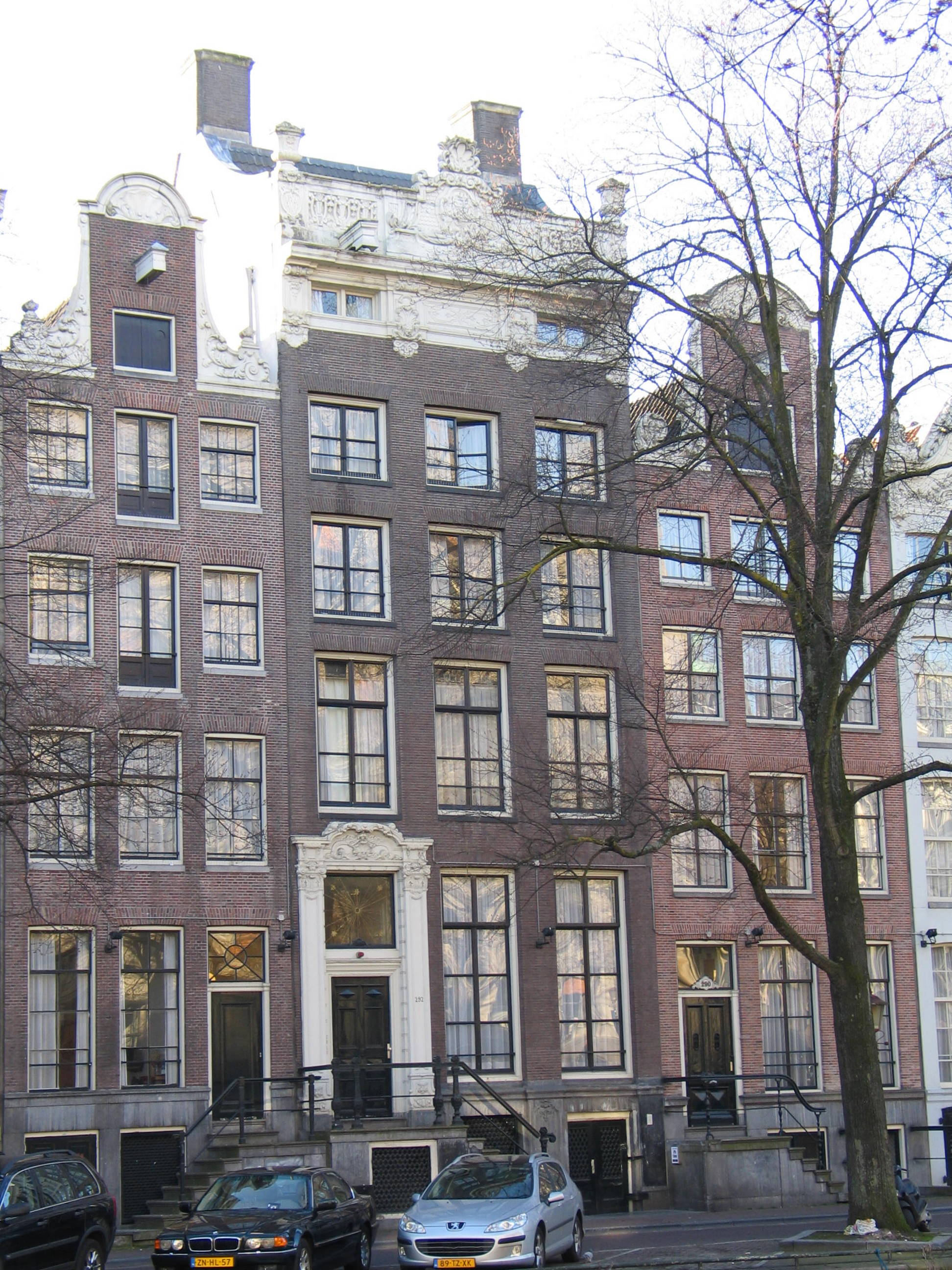 Canal house in Amsterdam on Singel 292